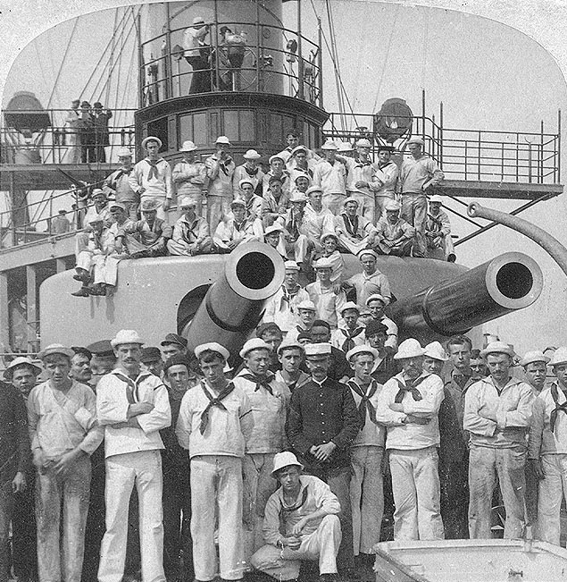 Photo #: NH 100302 – USS Iowa (Battleship # 4) – Crewmen pose by the ship's forward 12"/35 gun turret, 1898 – The original photograph was printed on a stereograph card, copyright 1898 by Strohmeyer & Wyman, New York. – Donation of Louis Smaus, 1985 – U.S. Naval Historical Center Photograph. Online Image: 176KB; 635 x 675 pixels. Source: [1]